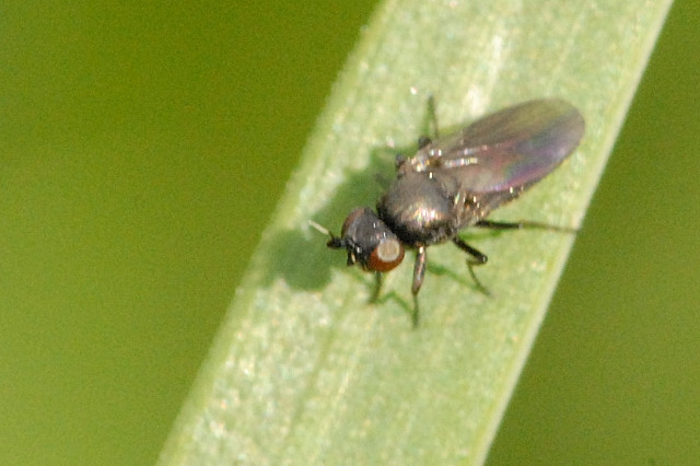 Picture taken in Commanster, Belgian High Ardennes . Species: possibly Oscinella frit